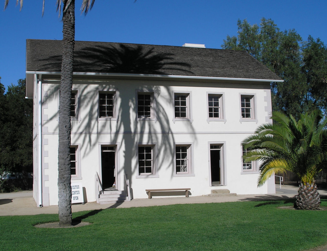 Restored Garnier House, a limestone farmhouse in Los Encinos State Historic Park at the Rancho Los Encinos, Encino, Los Angeles, California